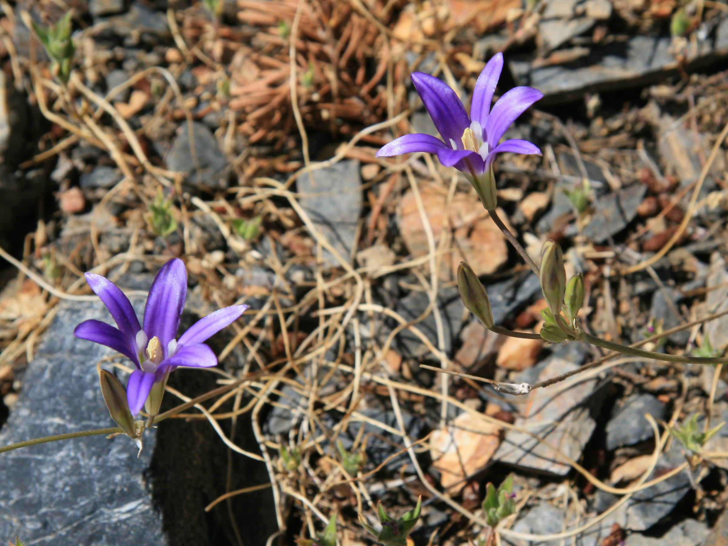 Harvest Brodiaea lily (Brodiaea elegans) — along the High Trail, above Agnew Meadows, about 2700m in the Sierra Nevada.